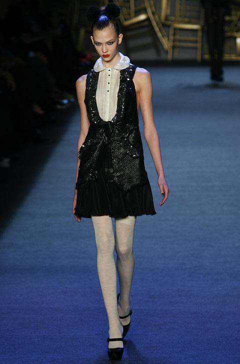 Karlie Kloss, American fashion model, in Zac Posen